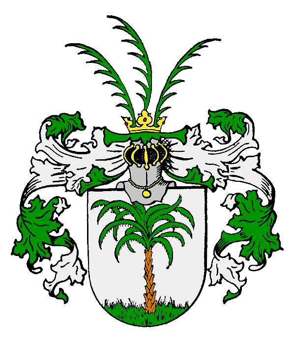 Keyserlingk COA